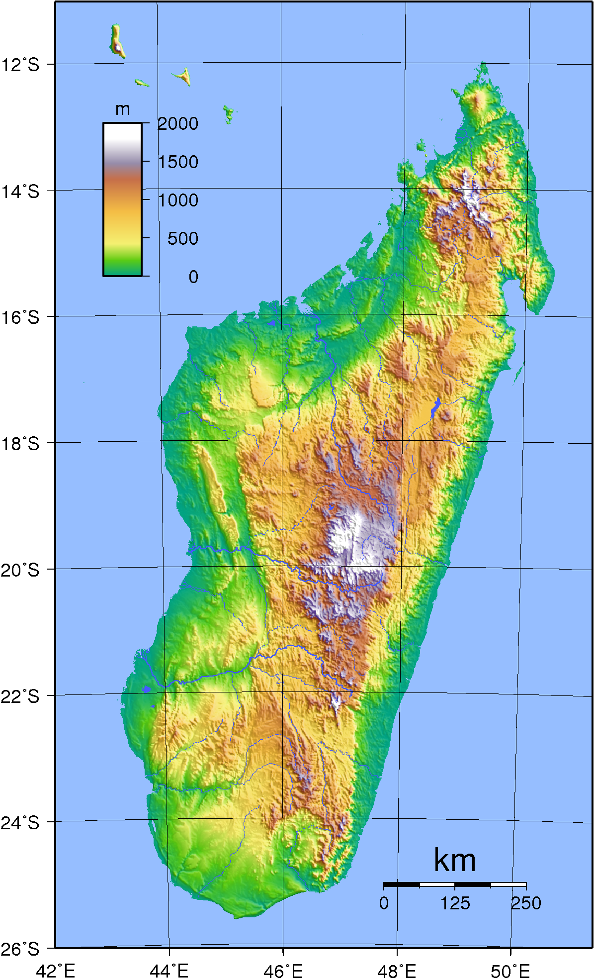 Topographic map of Madagascar. Created with GMT from SRT data.